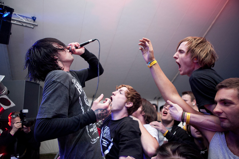 Dead Swans performing on stage.